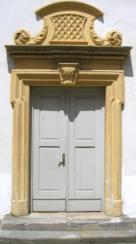 Heilgersdorf castle (Landkreis Coburg, Upper Franconia, Germany). Right side portal